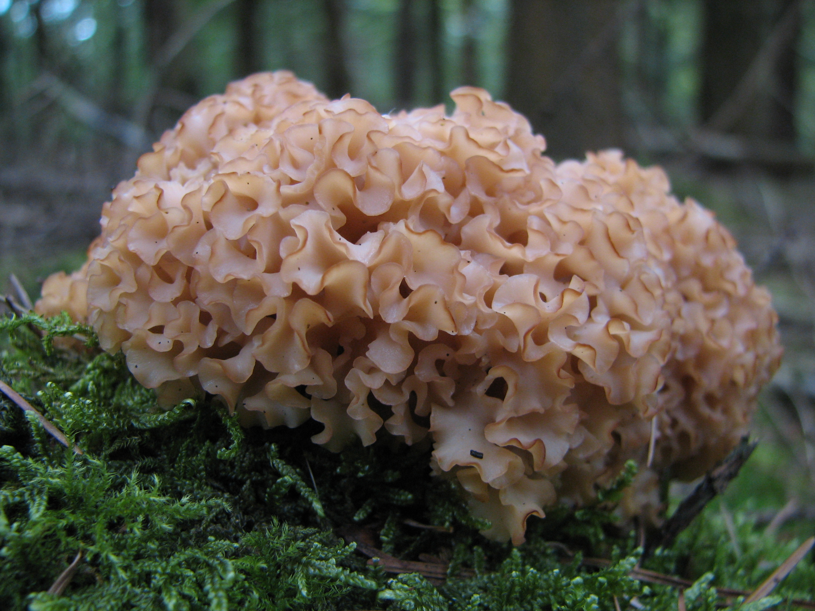 Sparassis crispa